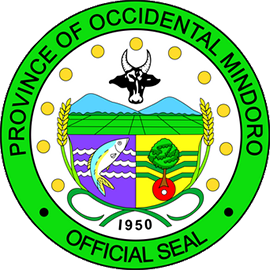 Provincial seal of Occidental Mindoro, Philippines.